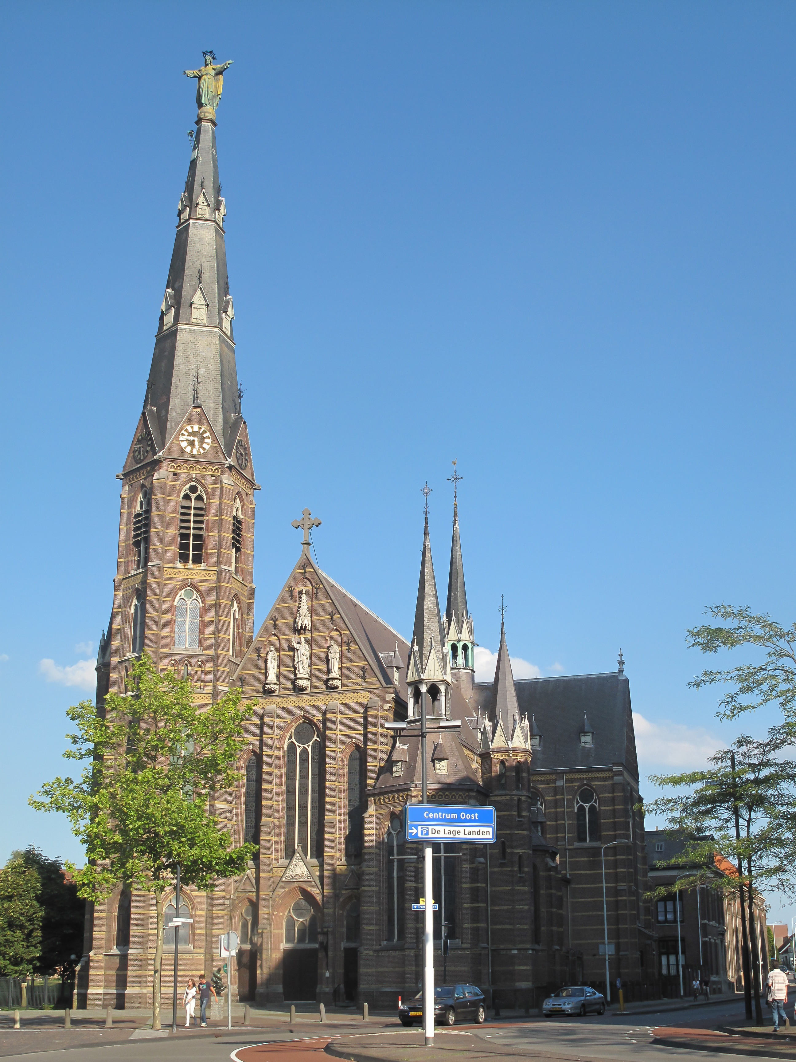 Eindhoven, church